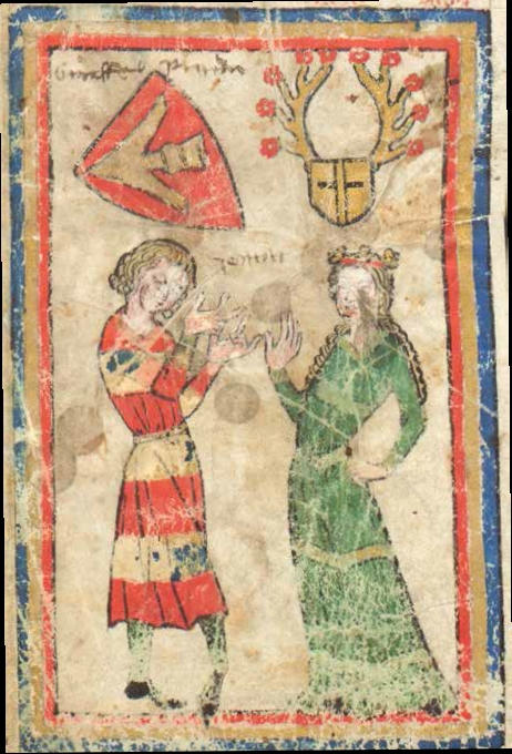 Heinrich von Stretelingen im Naglerschen Fragment